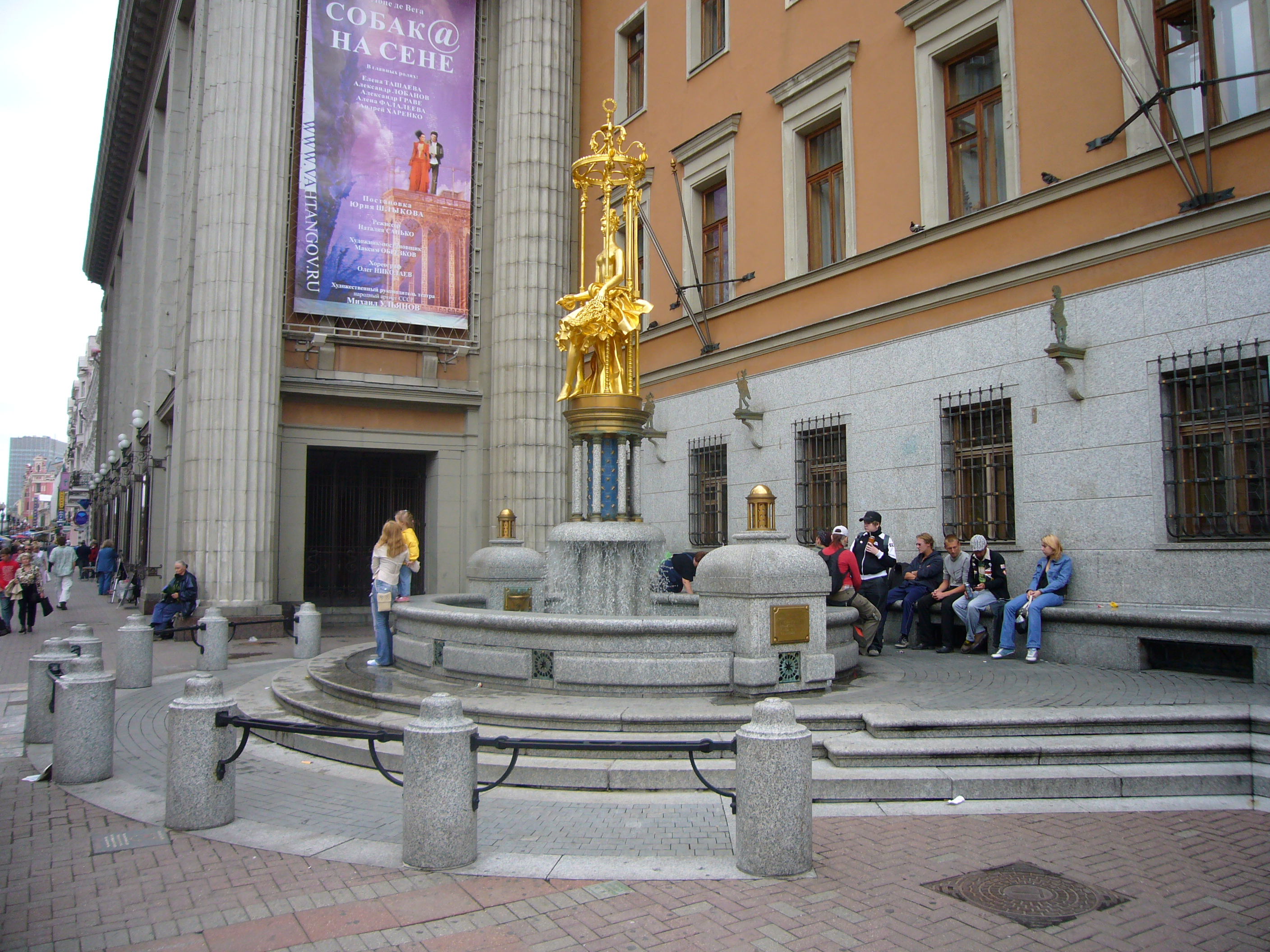 Turandot Fountain in Arbat Street in Moscow, Russia